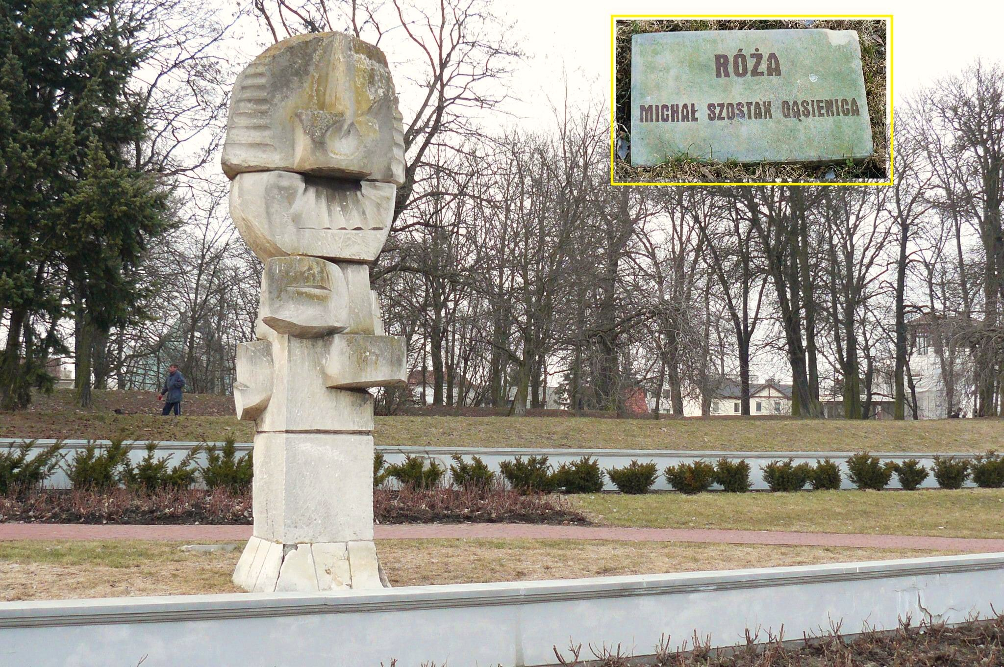 Rose, Michal Szostak-Gasienica, Poznan.